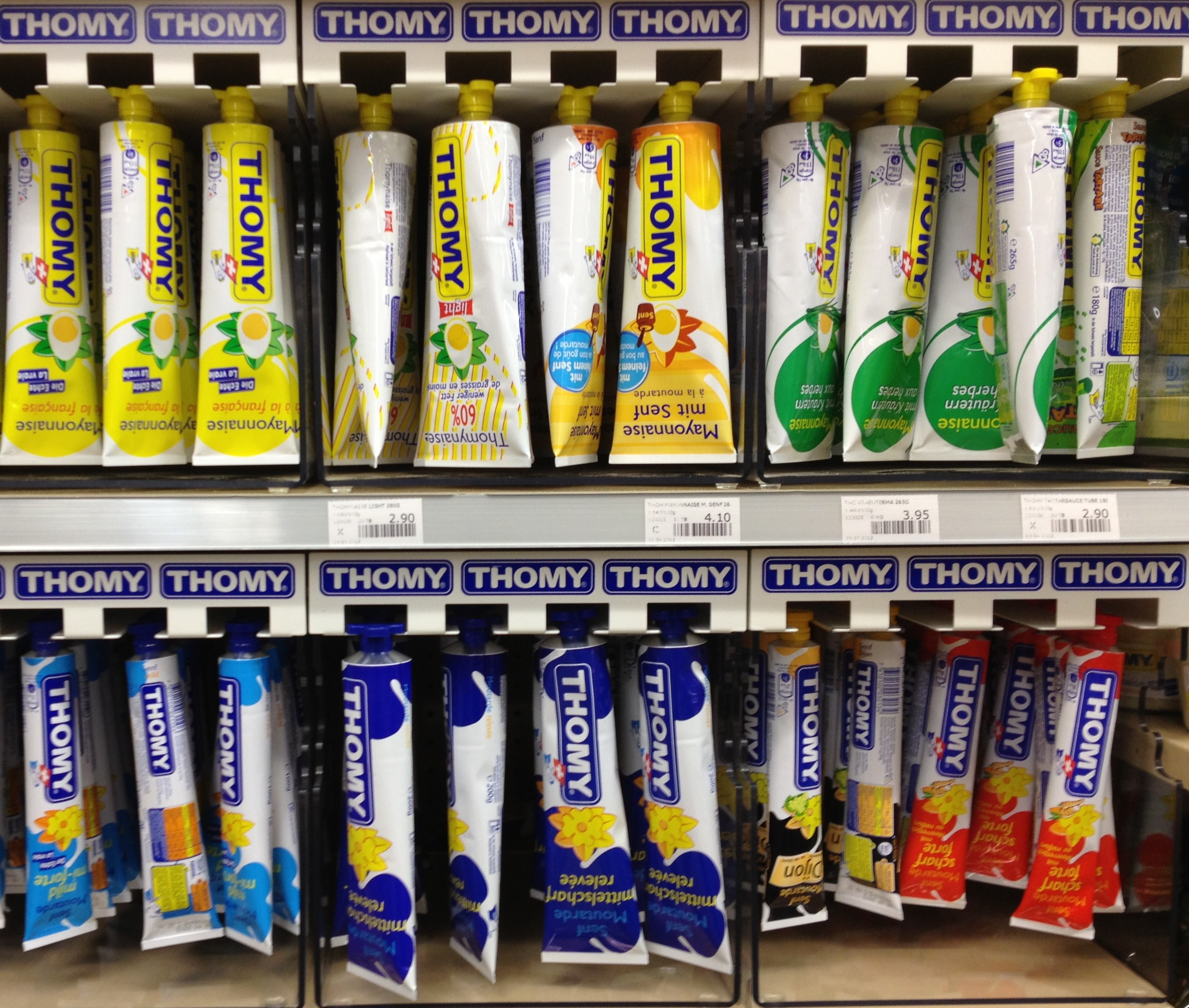 Thomy Tuben